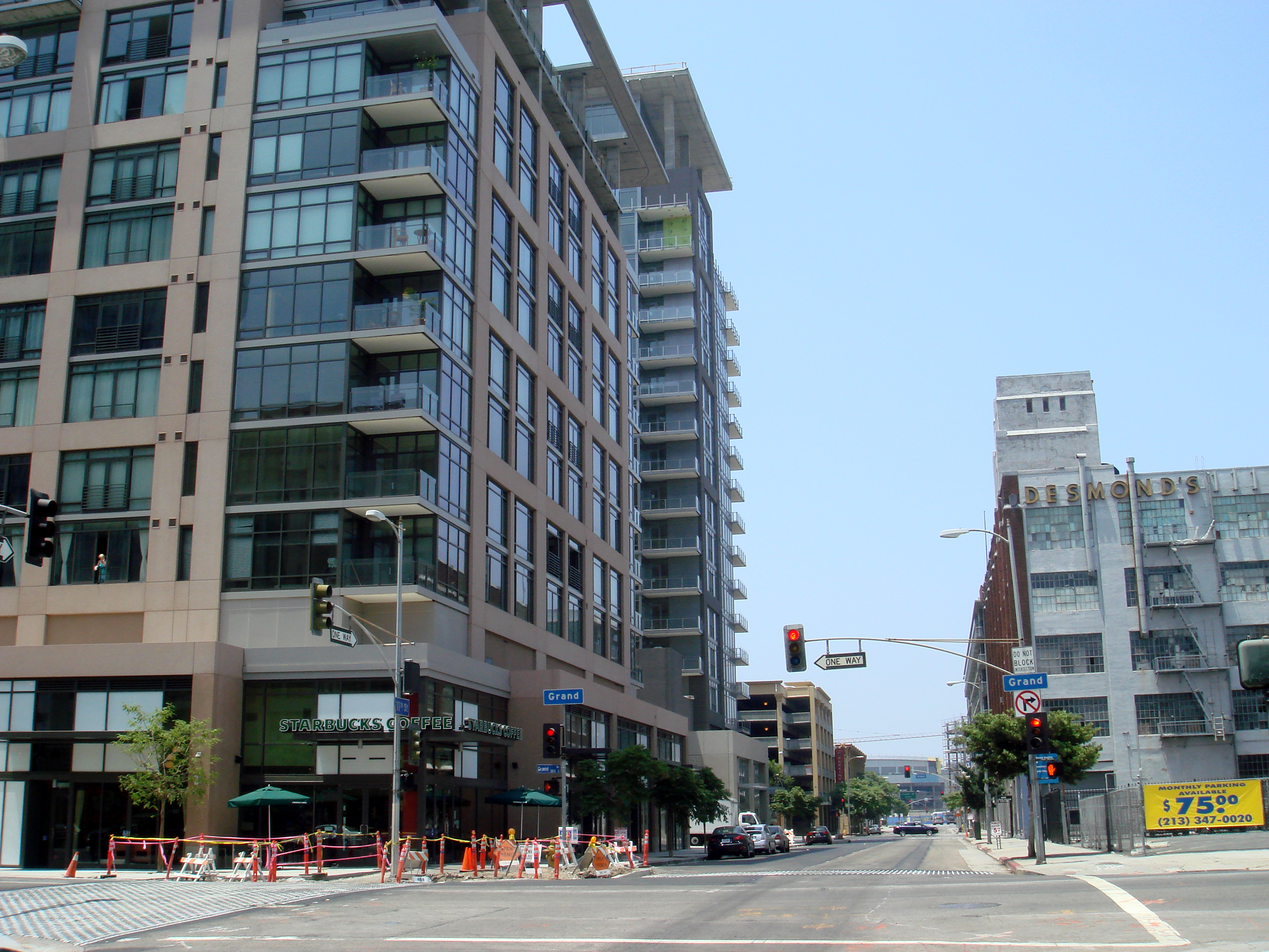 The gentrifying streetscape of the Downtown South Park neighborhood of southern Downtown Los Angeles, California. The original South Park neighborhood remains in South Los Angeles.